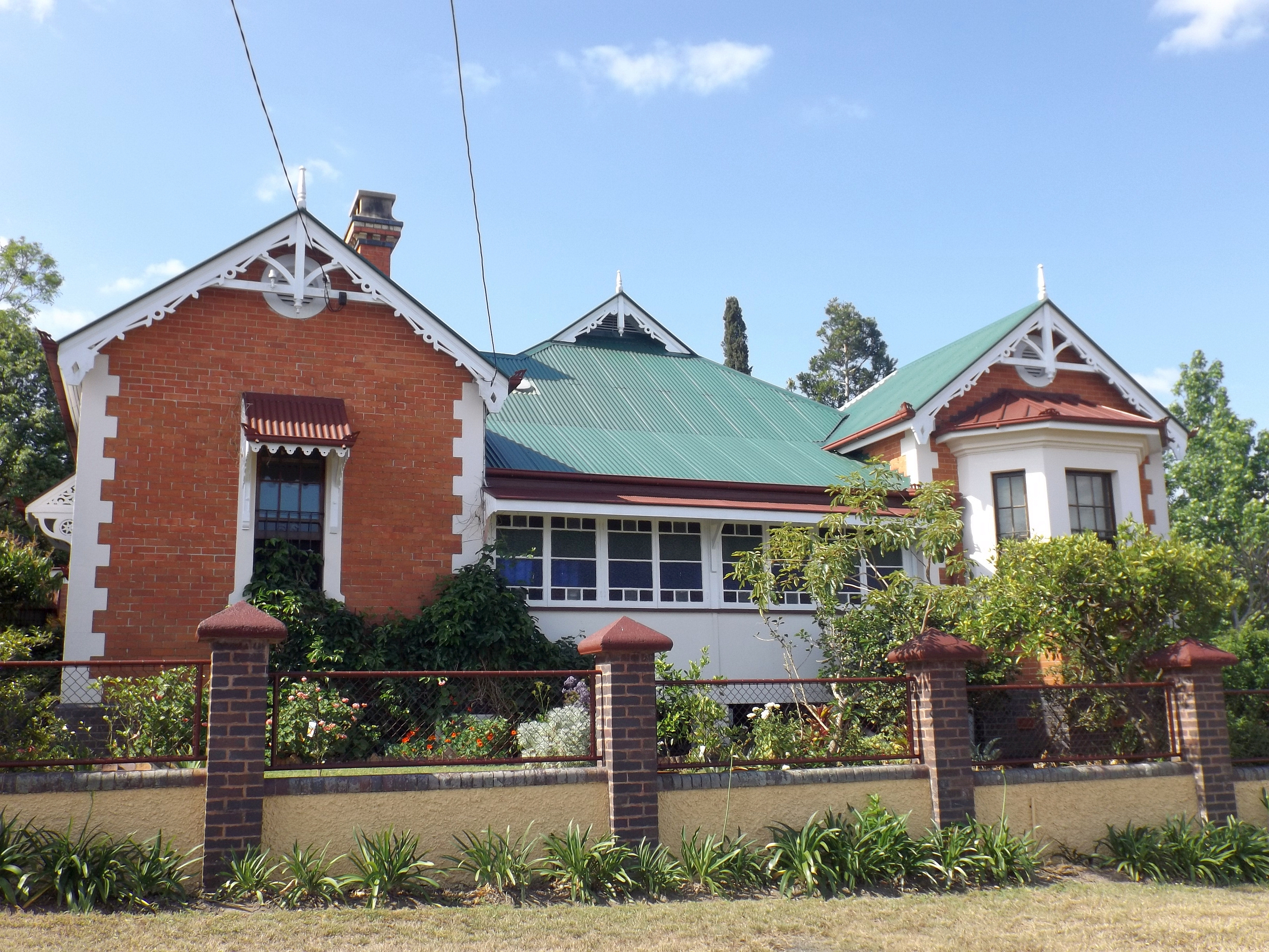 Photo of To-Me-Ree residence from Park Street, Ipswich, Queensland, Australia.